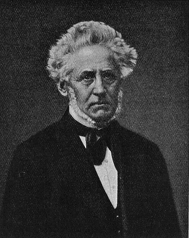 Peter Alfred Anton Hage (1803-1872). Posthumous portrait painting.